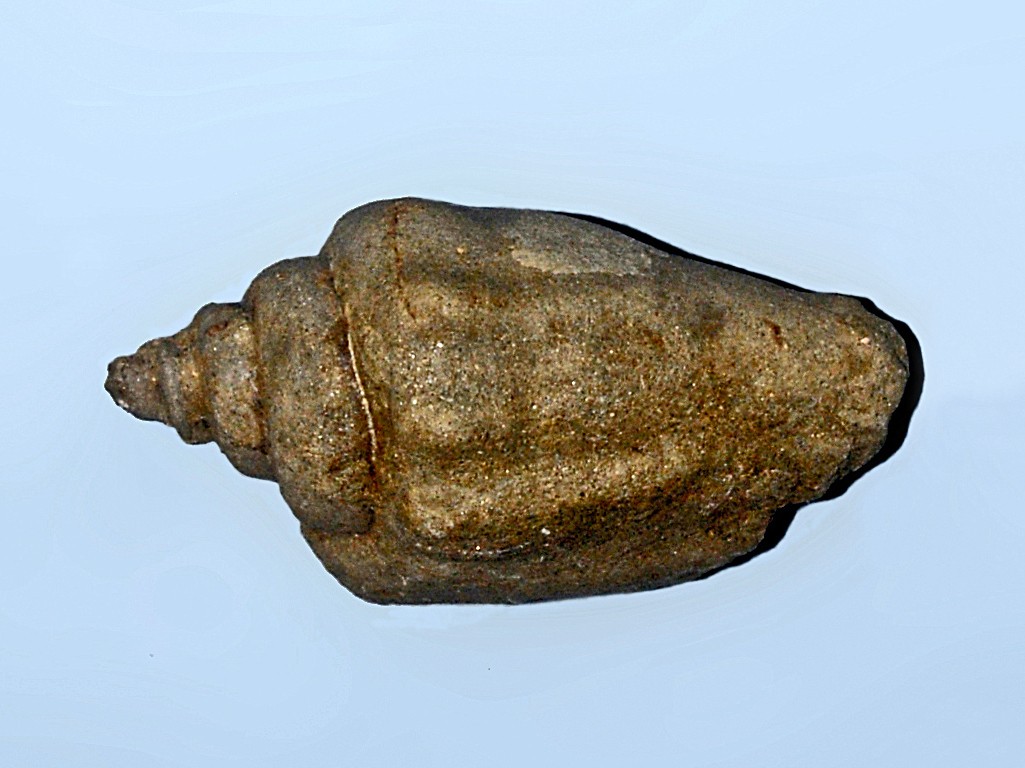 Fossil shell of Persististrombus radix, on display at the Museo Paleontologico Giulio Maini, Ovada